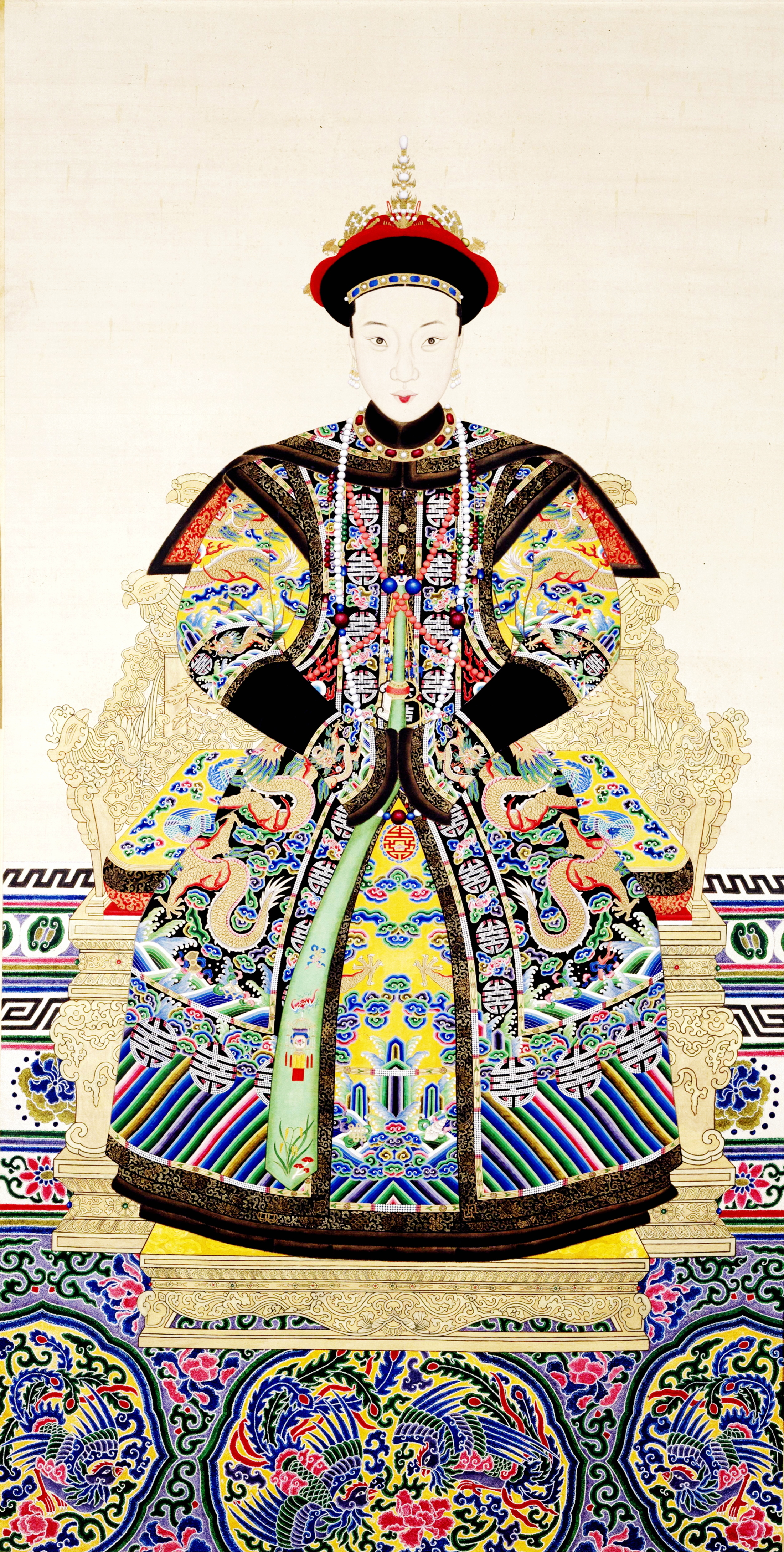 Empress Xiaodexian (1831-1850)